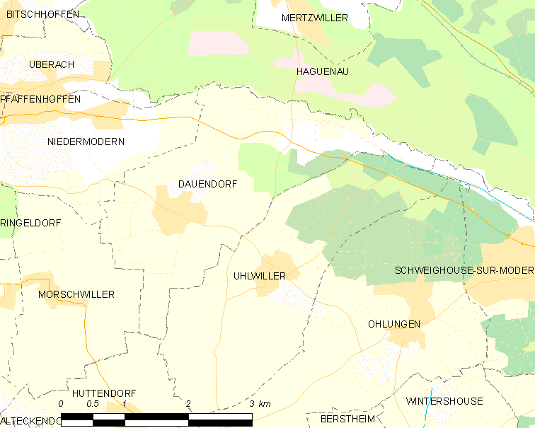 Map of French municipality